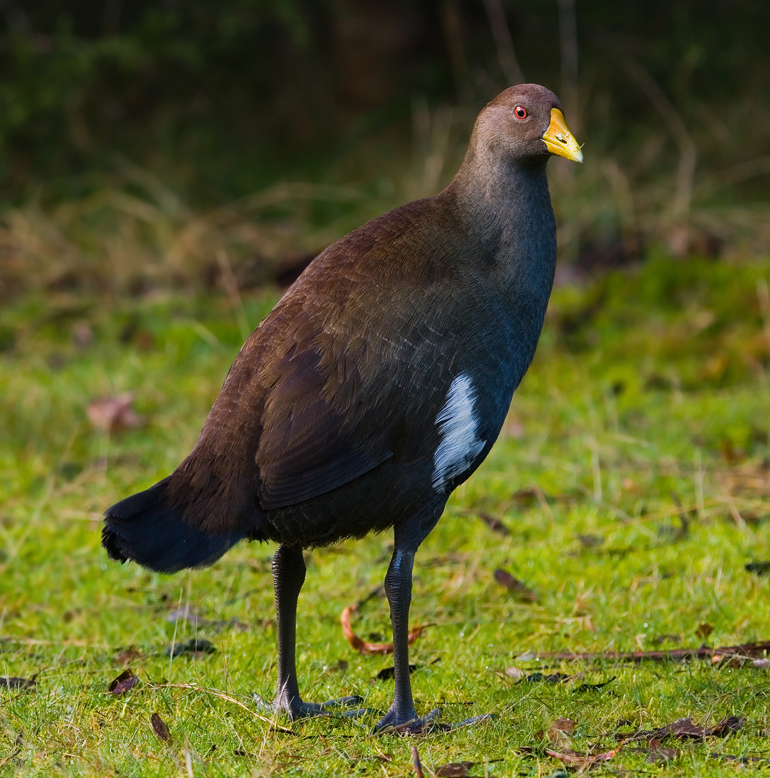 A Tasmanian Native-hen (Gallinula mortierii) grazing in Tasmania, Australia